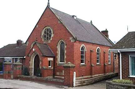 Leeming Methodist Church.